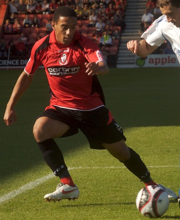 Liam Feeney, AFC Bournemouth vs. Burton Albion 8